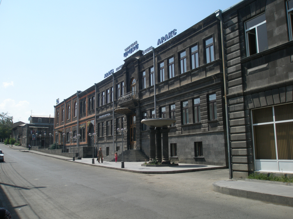 View from old Gyumri